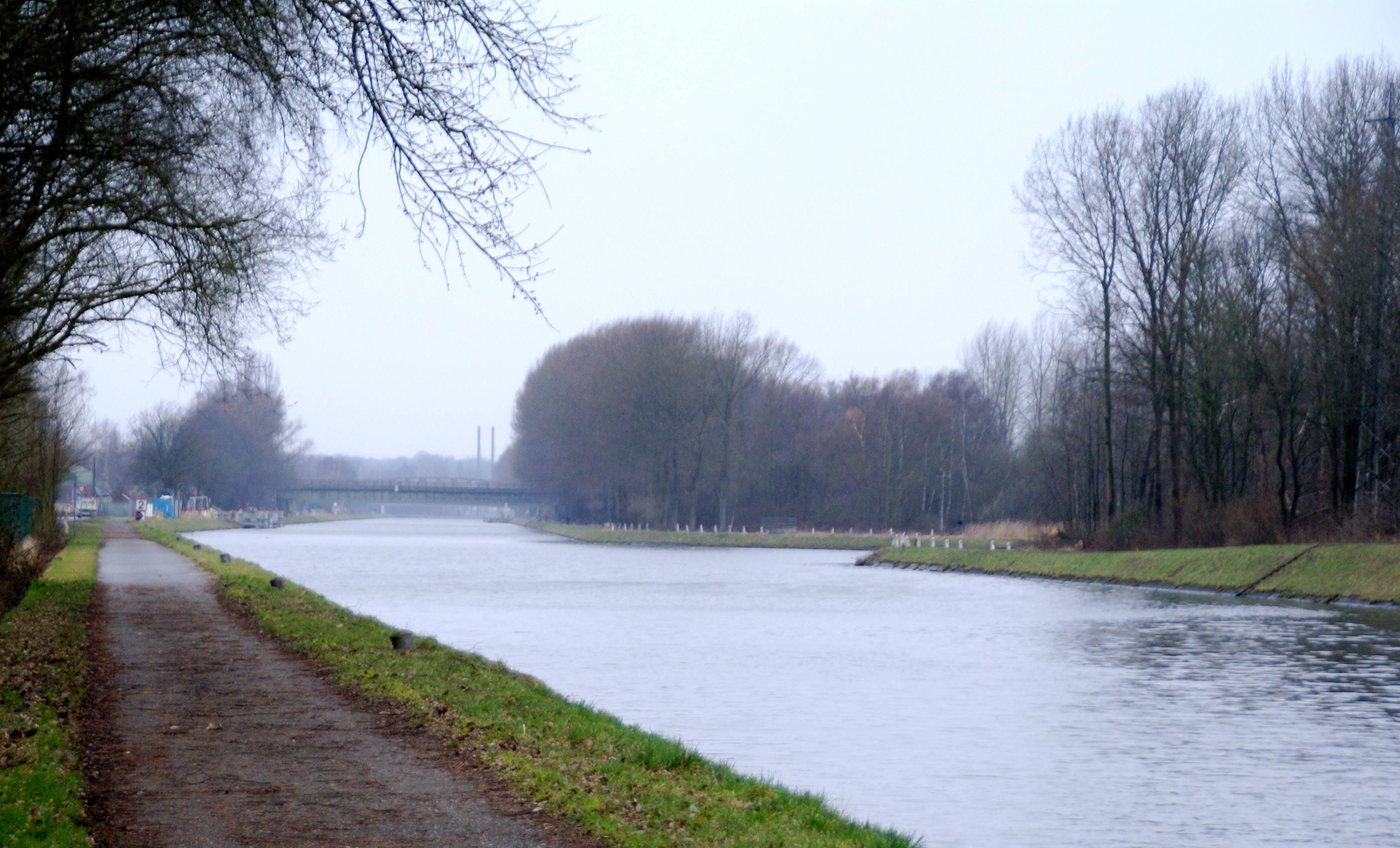 Seneffe (Belgium): The Brussels-Charleroi Canal and the Samme river (right)